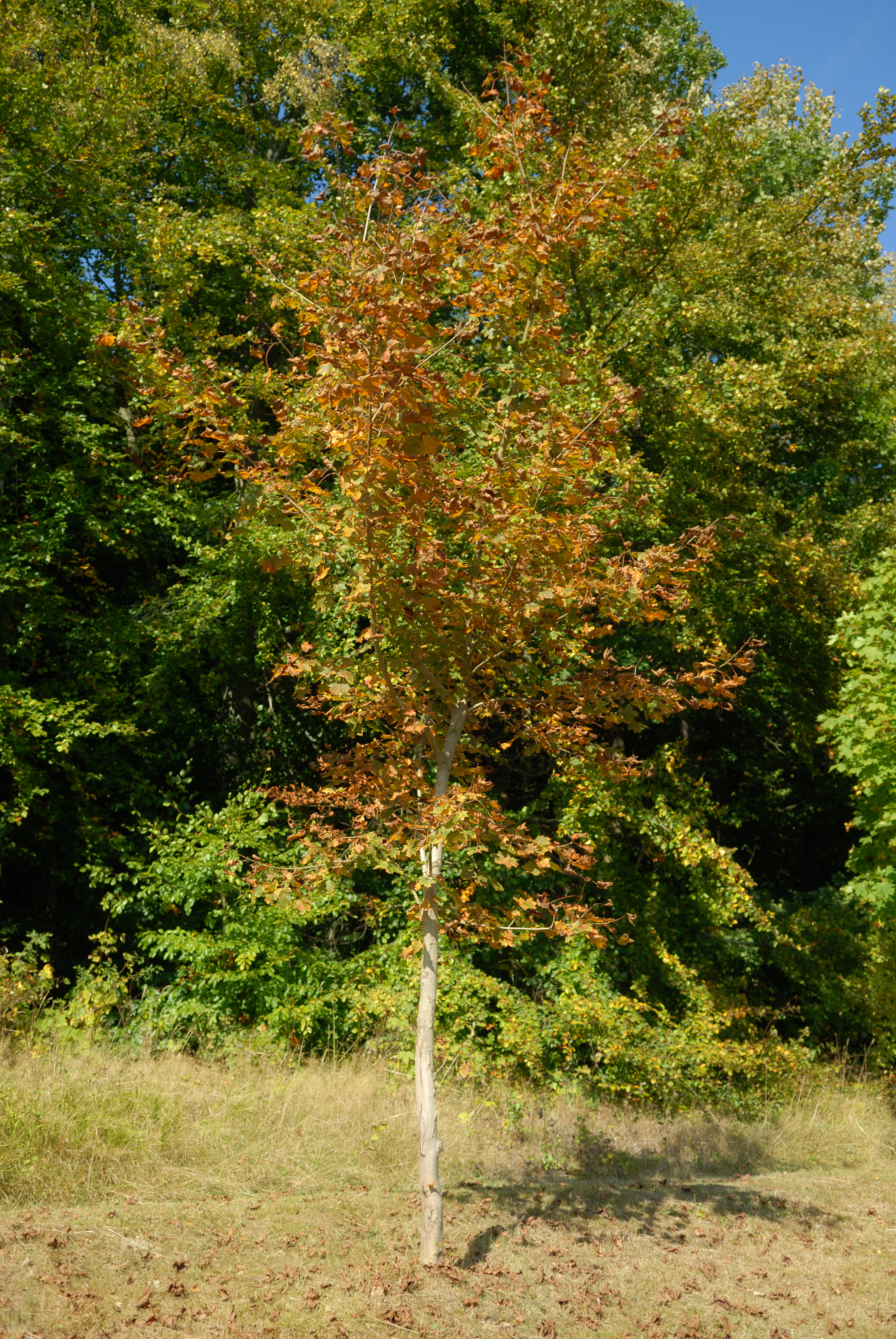 Norway Maple (Acer platanoides 'Schwedleri' )